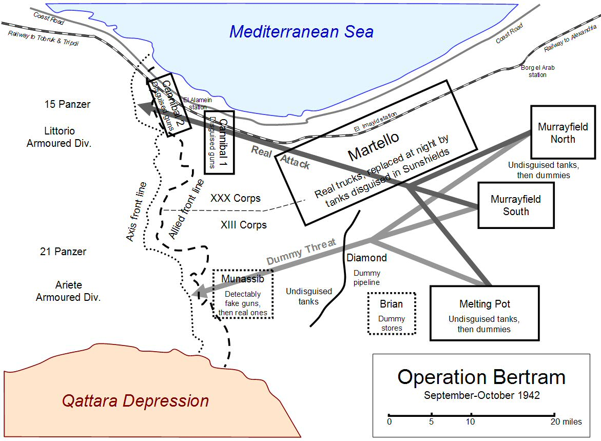 Map of Operation Bertram, the military deception for the Second Battle of El Alamein, 1942